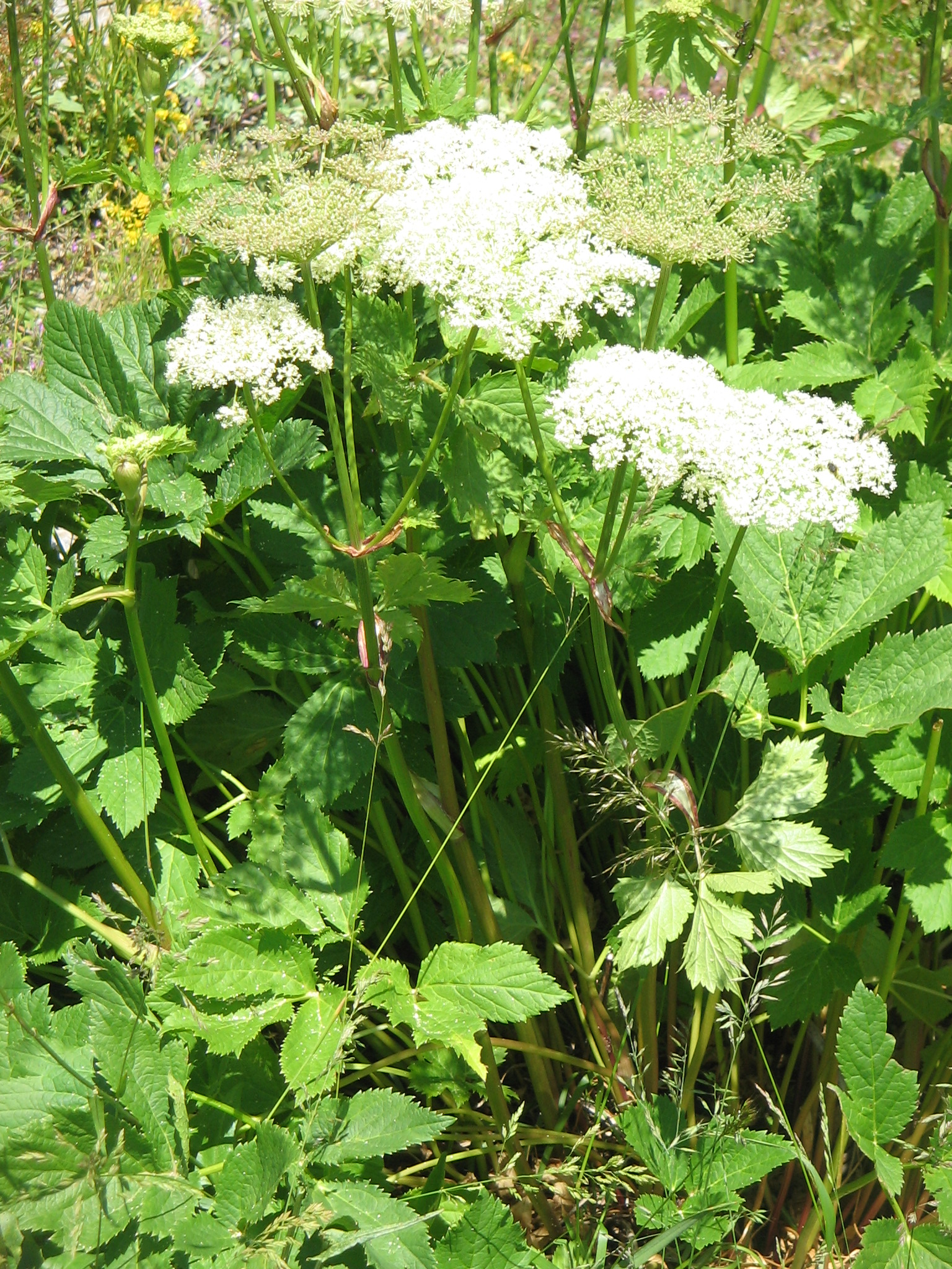 Peucedanum ostruthium